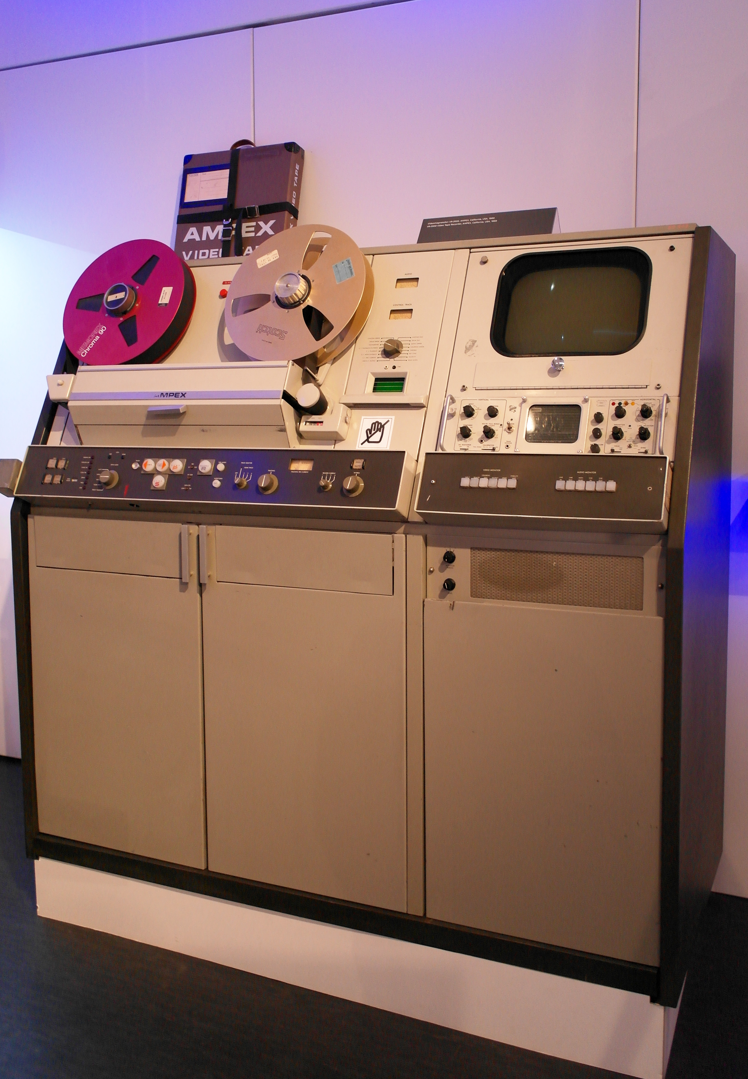 2 inch Quadruplex video tape recorder Ampex VR-2000 (1960) at the exhibition of National Czech Technical Museum, Prague.